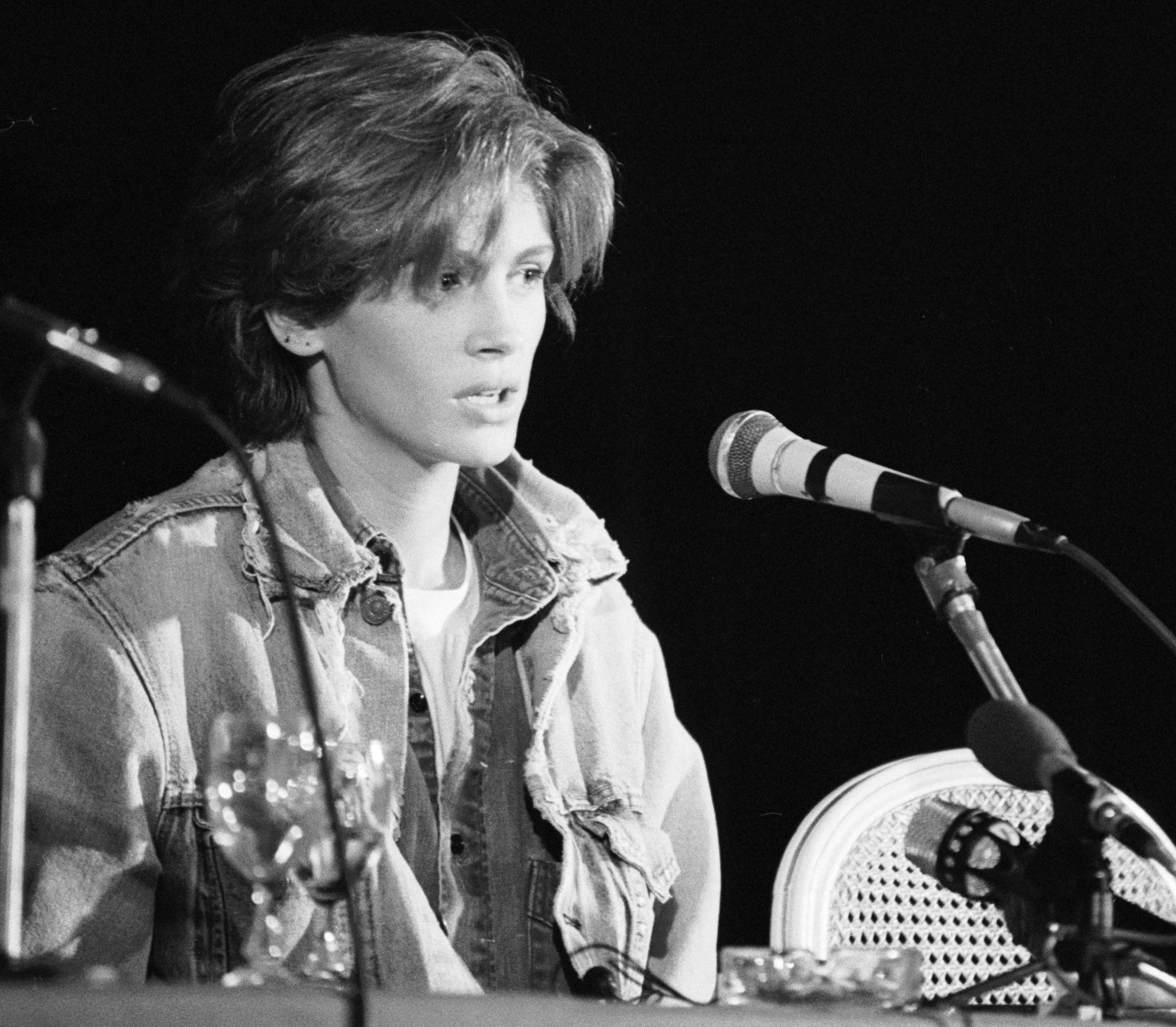 American actress Julia Roberts at the Deauville American Film Festival (Normandy, France) in September 1990